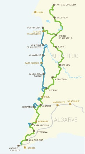 Rota Vicentina Map